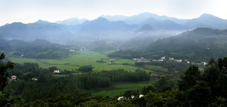 Dongxixi Town,Huoshan county,Anhui